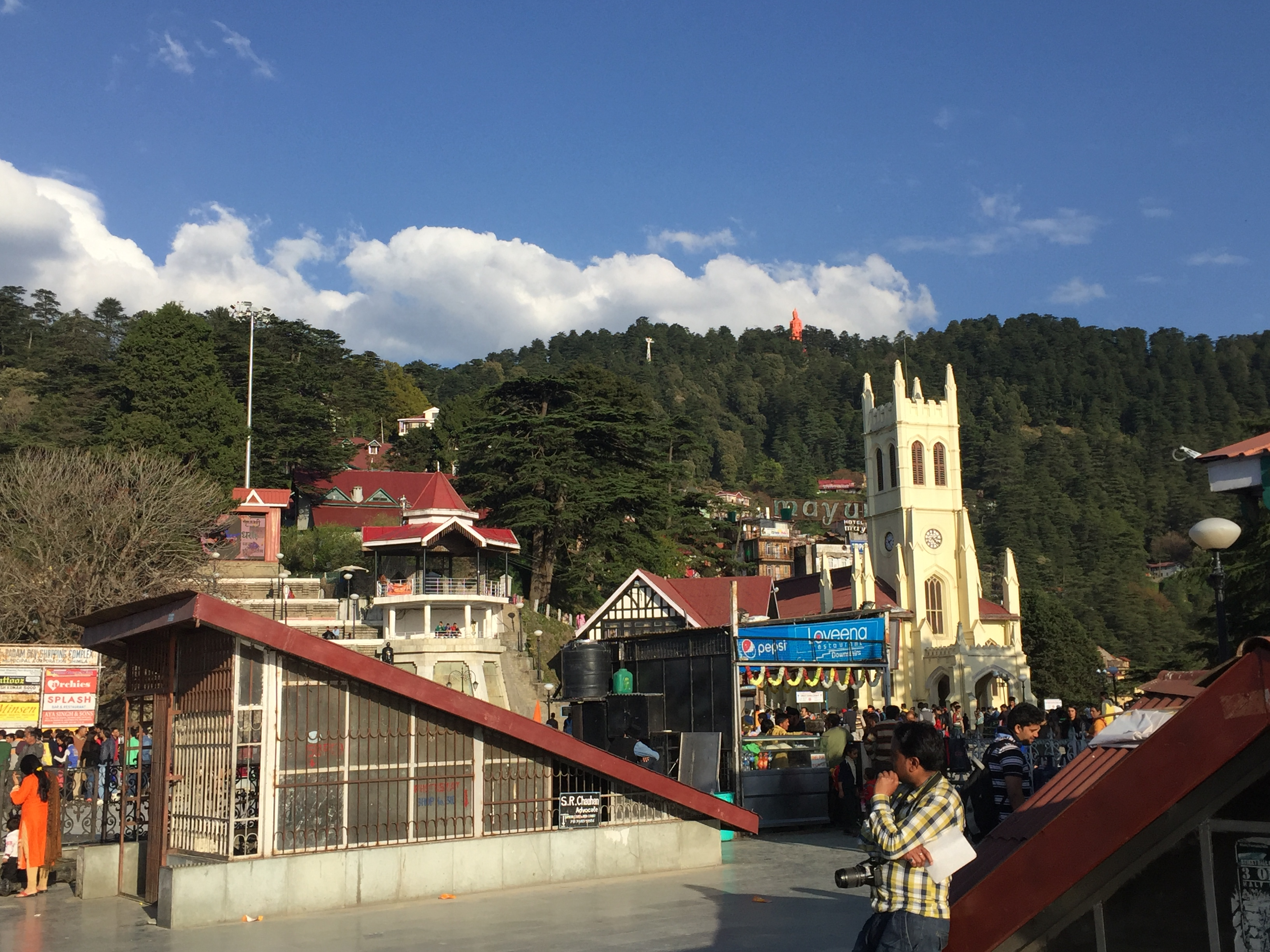 View of Jhakoo Hanuman from the Ridge